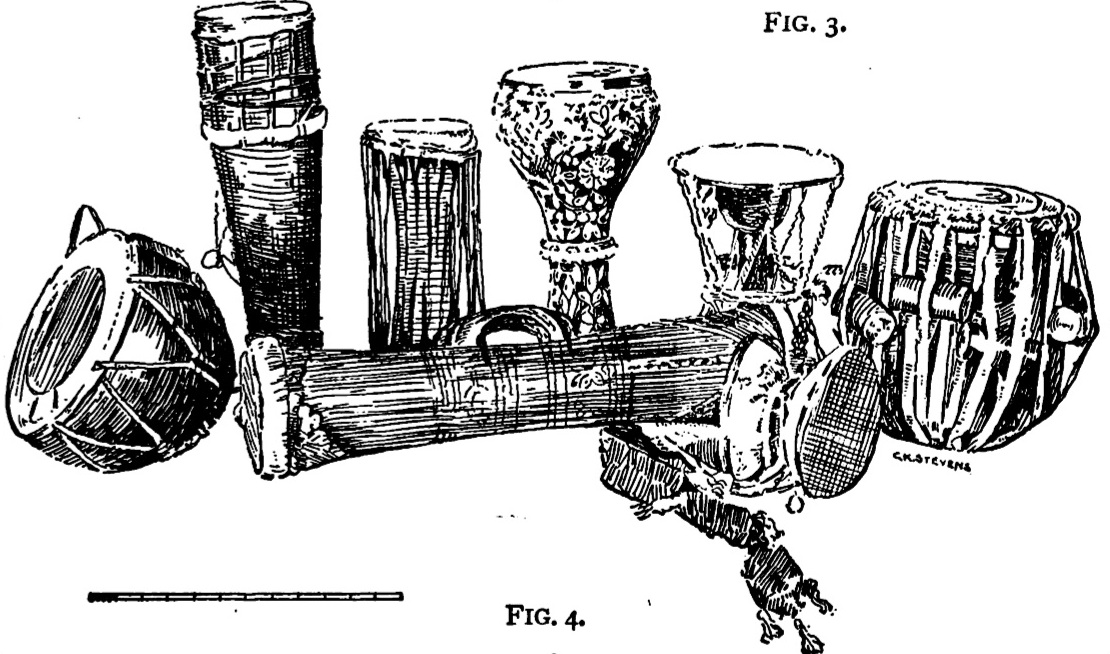 "Fig. 4 Miscellaneous Drums - primitive, Egyptian, Turkish, Japanes, etc., one (Thibetan) made of a skull cut in two."